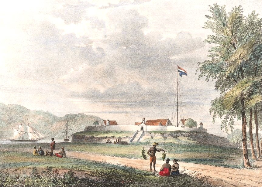 Fort te Saparoea